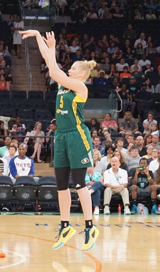 Abby Bishop at 2 August 2015 game